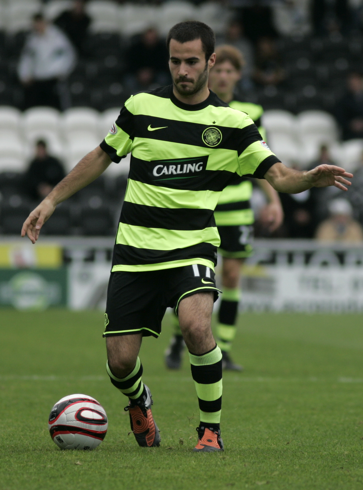 Marc Crosas